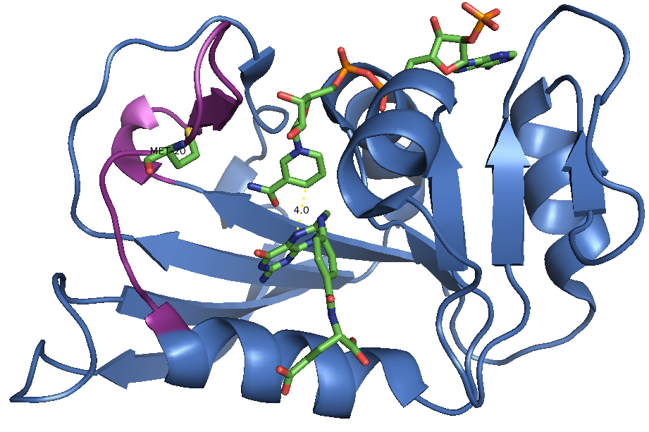 The crystal structure of DHFR in complex with folate and NADPH. The red region is the Met20 loop. The hydride transfer distance is displayed.